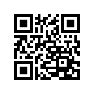 QR Code: URL